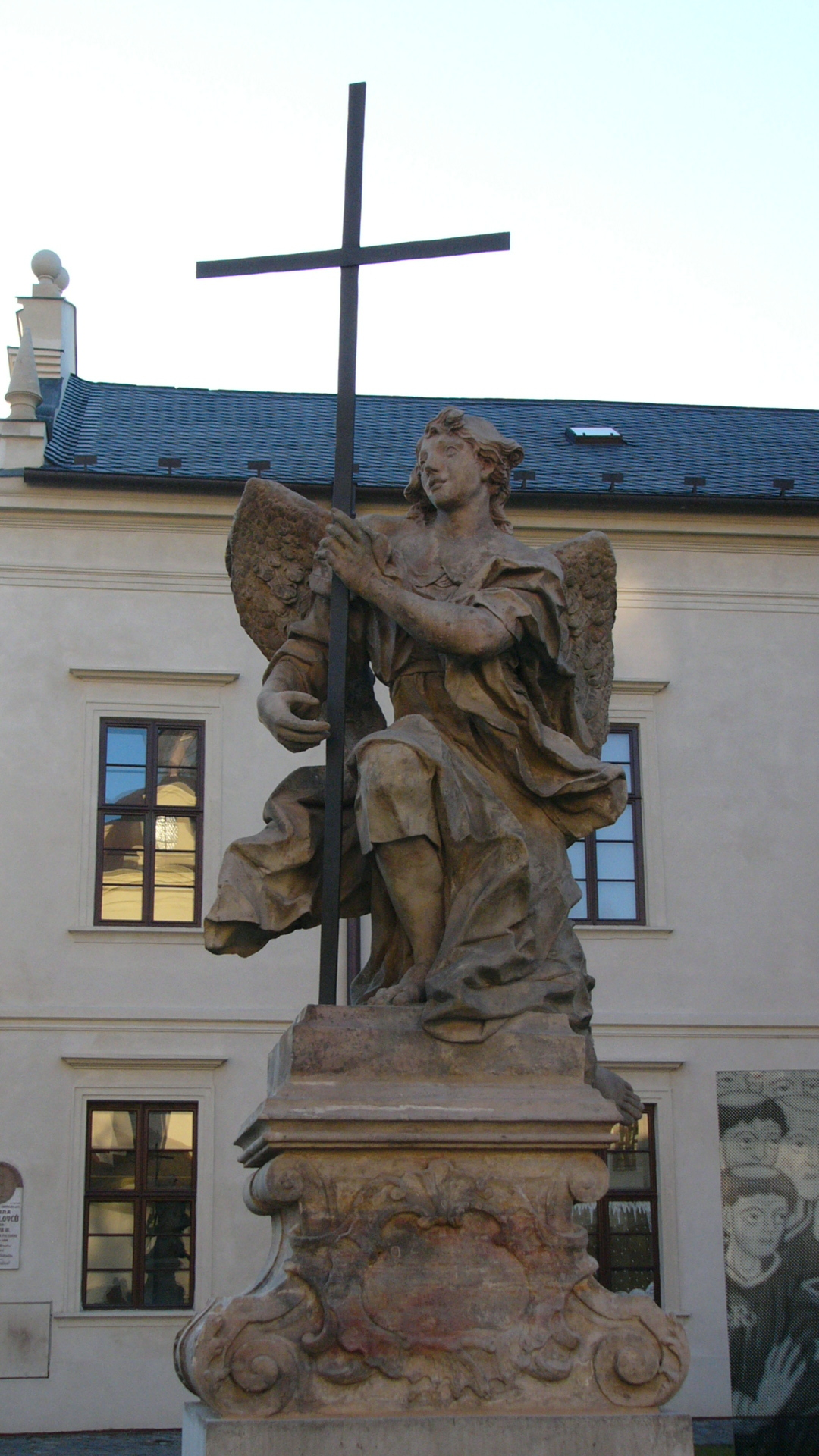 statue of an angel by Andreas Zahner (Ondřej Zahner) in Olomouc Olomouc